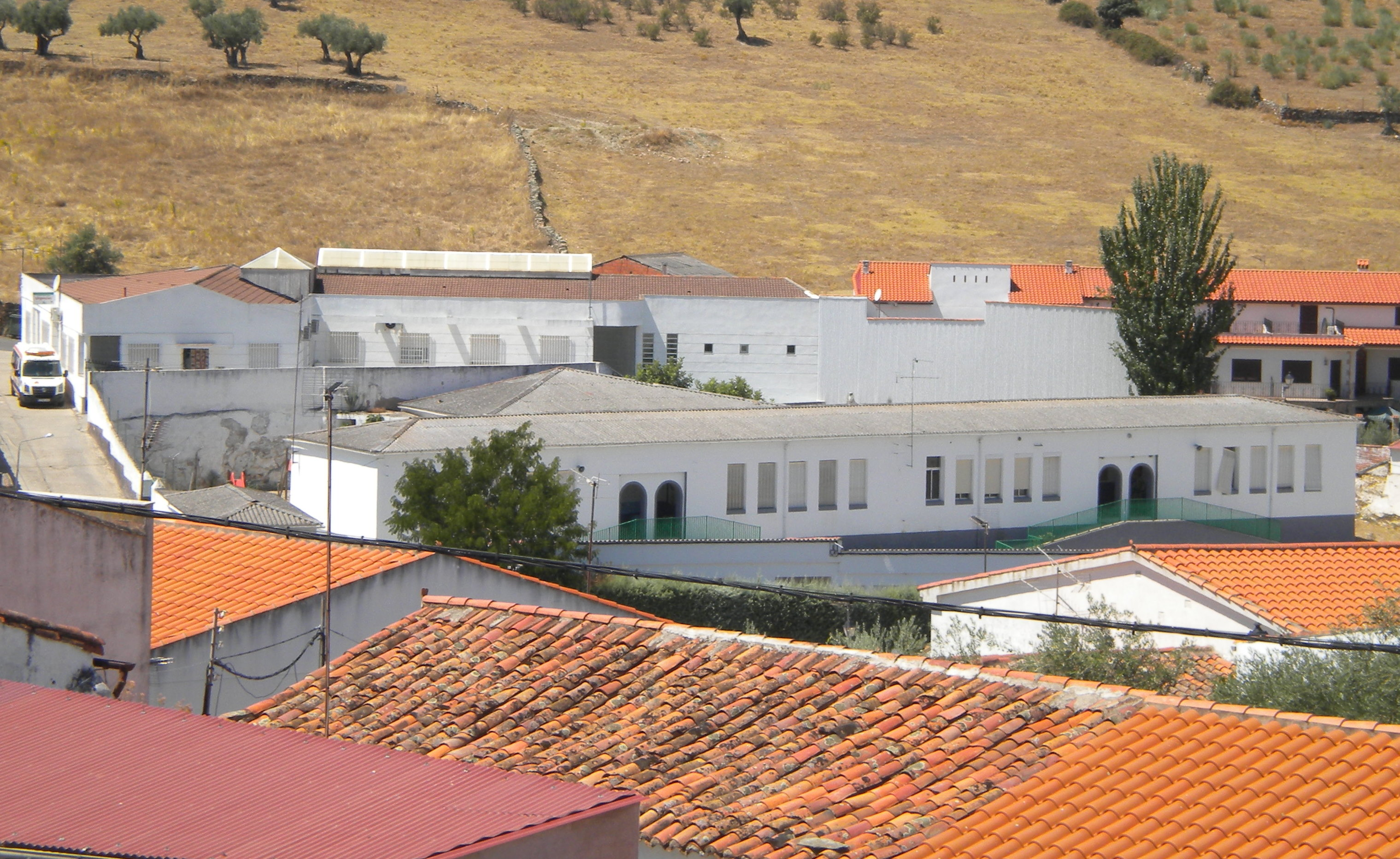 Medical center and school in Talaván (Extremadura, Spain)